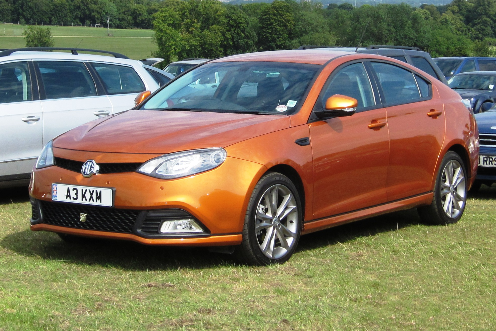 MG Turbo 6 (2011)